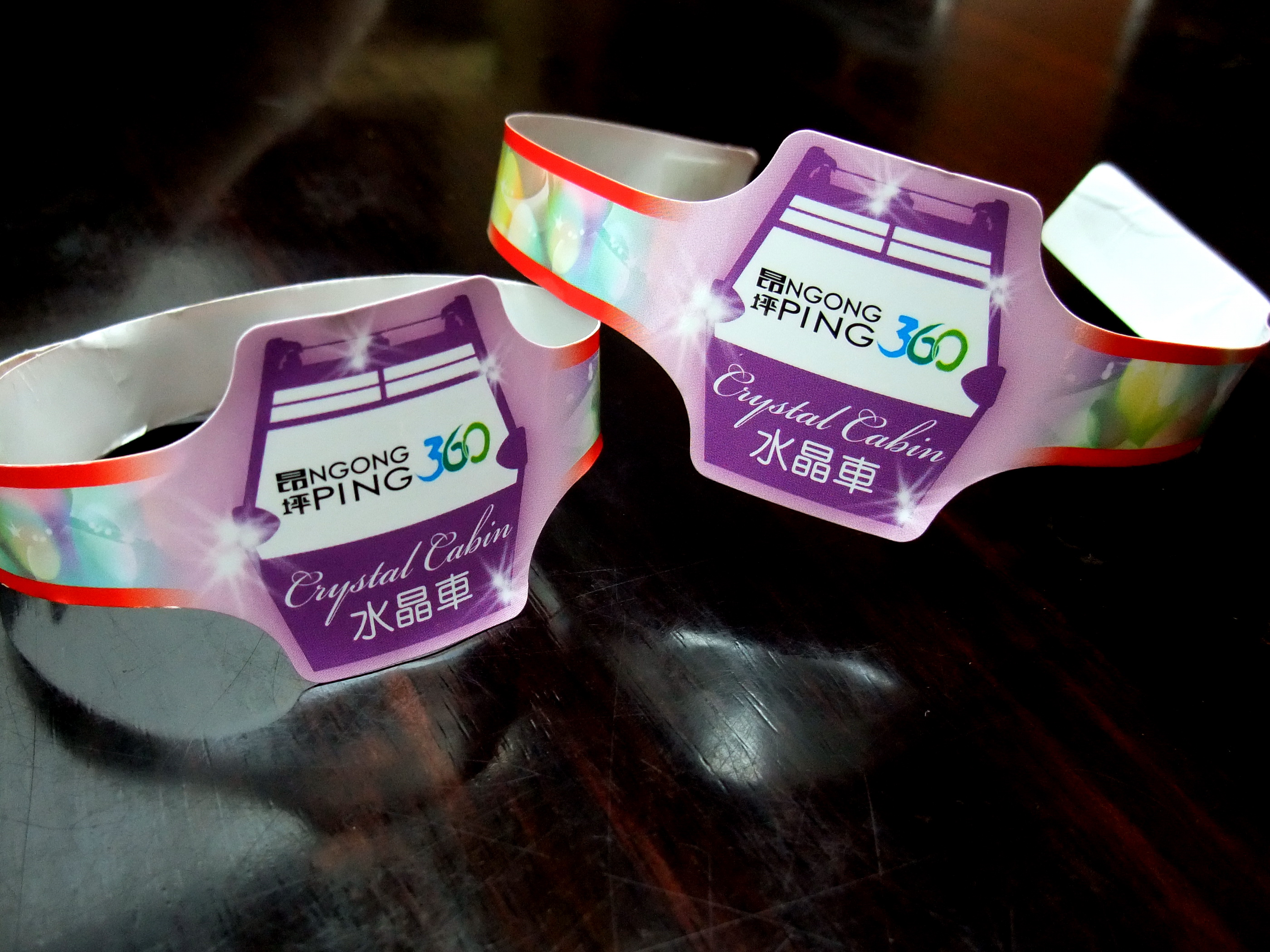 Identification bracelet for the Ngong Ping 360 Crystal Cabin (Hong Kong)